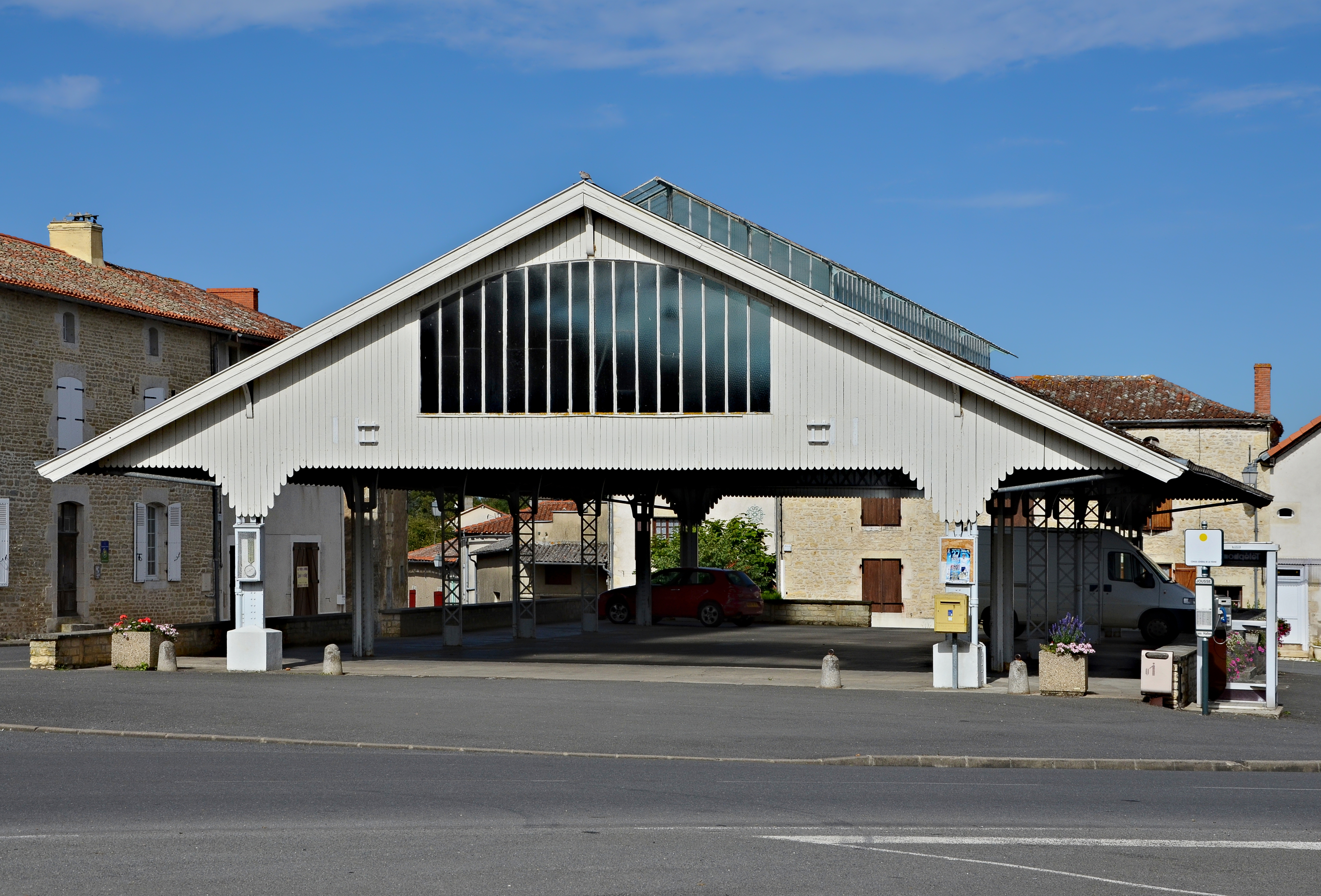 Market-hall (end of 19th century), Joussé, Vienne, France.